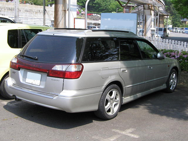 Subaru "Legacy TouringWagon" (3rd generation)